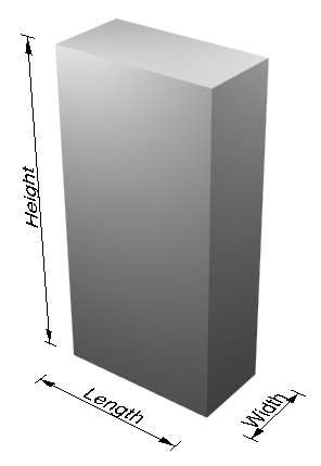 This image shows the dimensions length, width and height. All my own work. This is now public domain work. Feel free. --Dhatfield 11:03, 3 August 2007 (UTC)